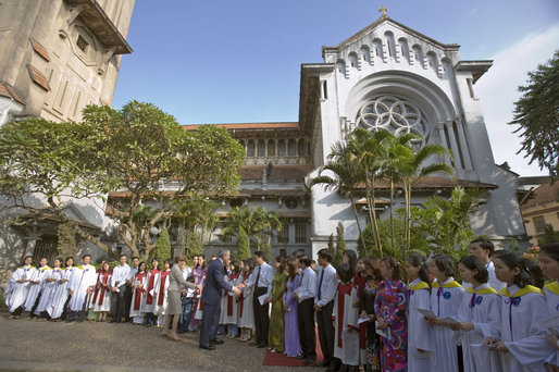 President George W. Bush and Laura Bush greet members of Cua Bac Church in Hanoi, Vietnam, Sunday, Nov. 19, 2006. The President and Mrs. Bush attended service and addressed the press afterwards.